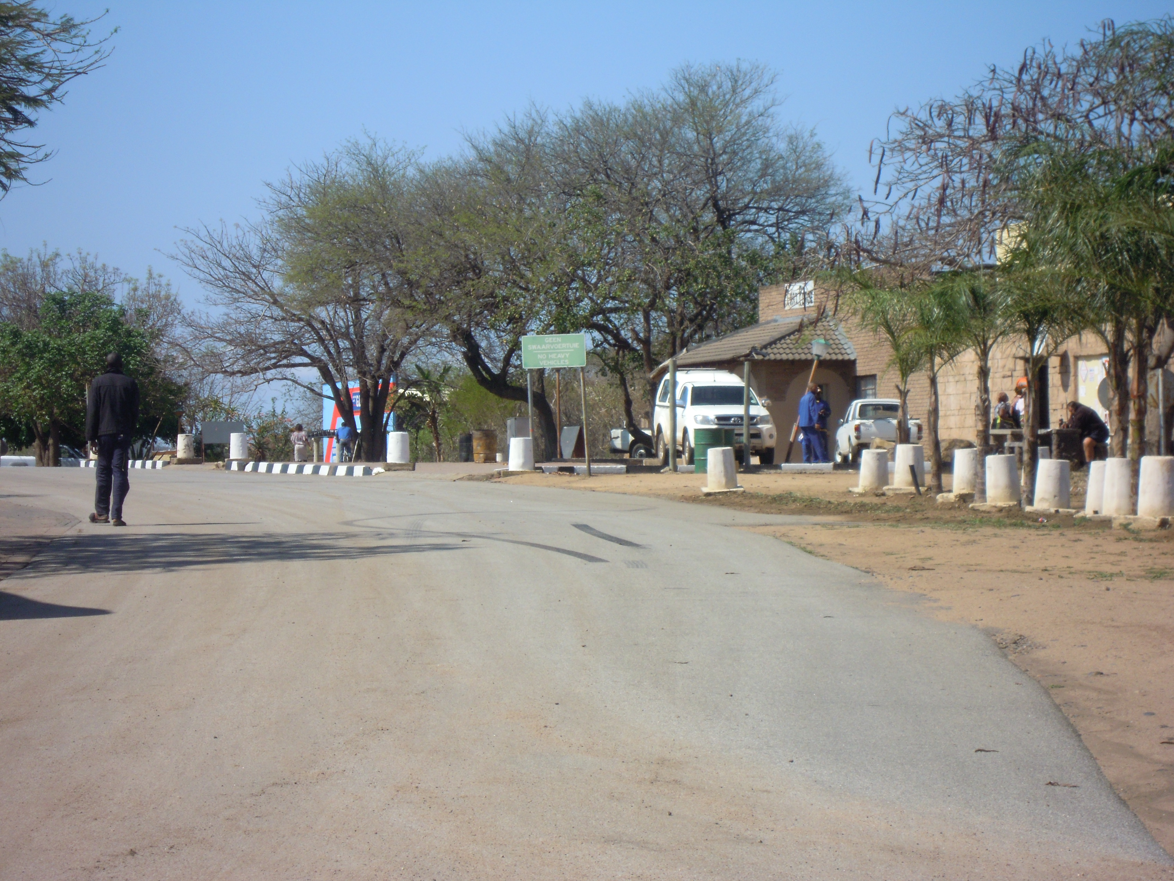 Hectorspruit